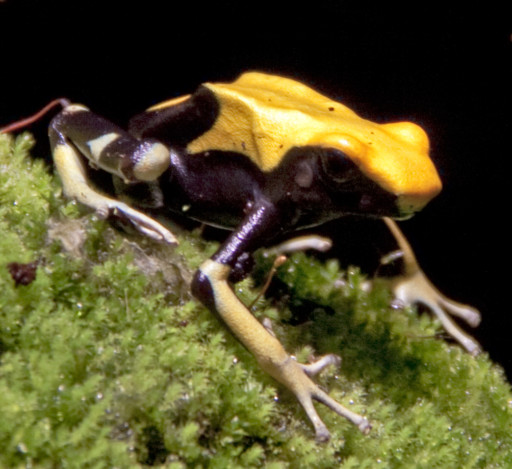 Splash back poison dart Frog